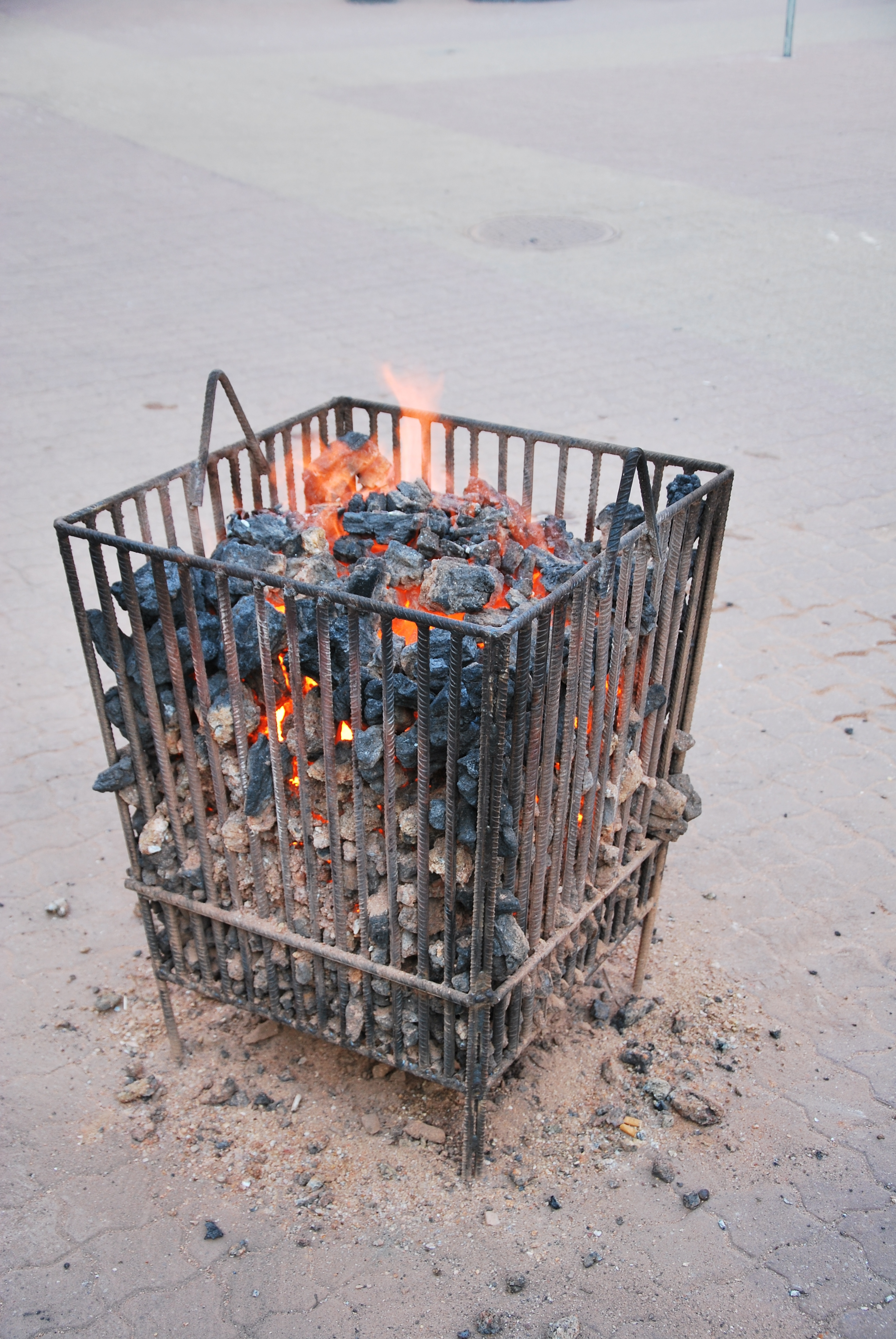 Coke stove